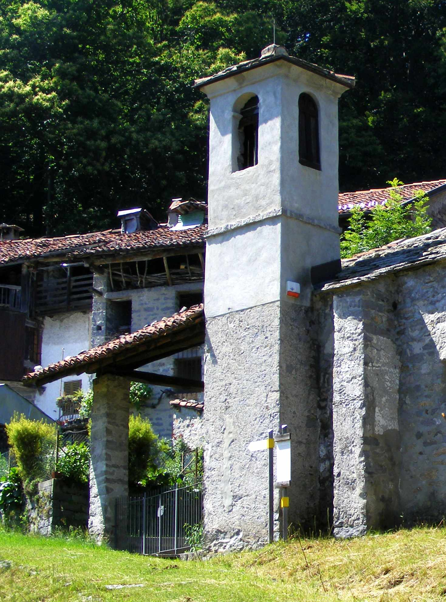 Santa Maria di Pediclosso (San Paolo Cervo, BI, Italy)